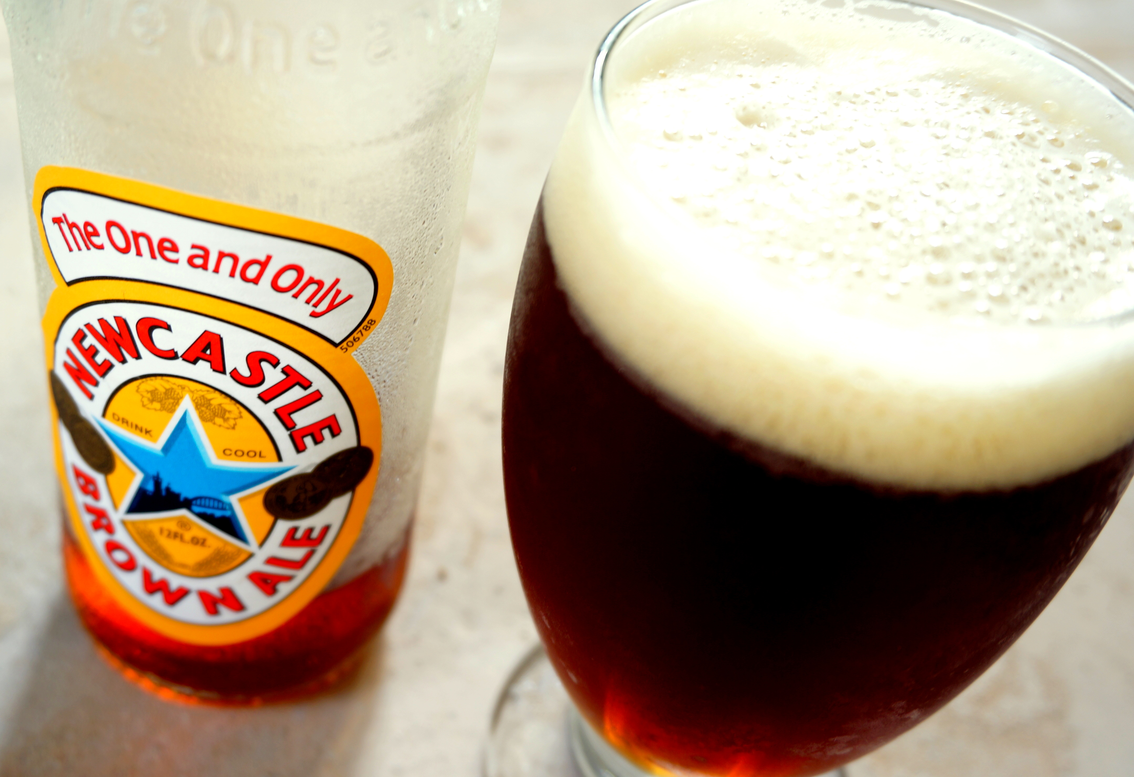 A bottle of Newcastle Brown Ale poured and served in a Geordie Schooner. More freely usable pictures related to spirits, beer, distilling etc.